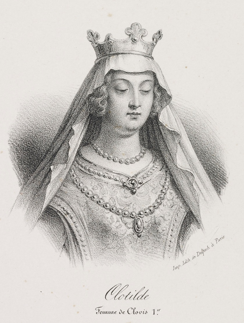 Clotilde (475-545), second wife of Clovis I